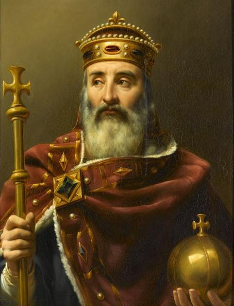 This painting belongs to the Portraits of Kings of France, a series of portraits commissioned between 1837 and 1838 by Louis Philippe I and painted by various artists for the Musée historique de Versailles.